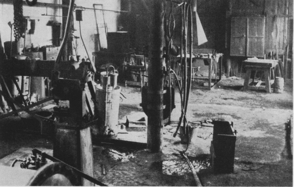 Great Depression in Czechoslovakia Česky: Velká hospodářská krize ve 30. letech v Československu - prázdné továrny